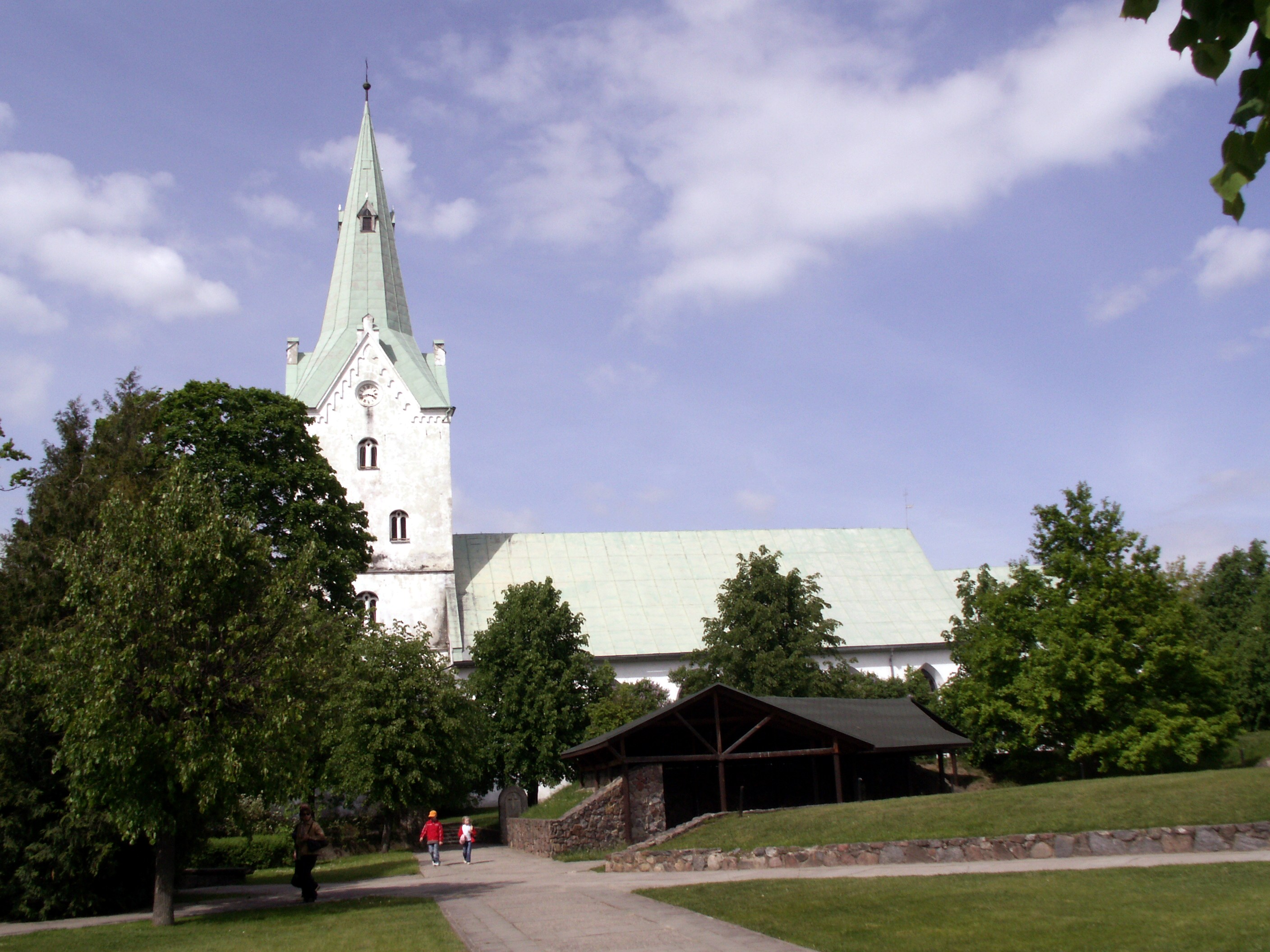 1Dobele, Latvia - lutheran church.